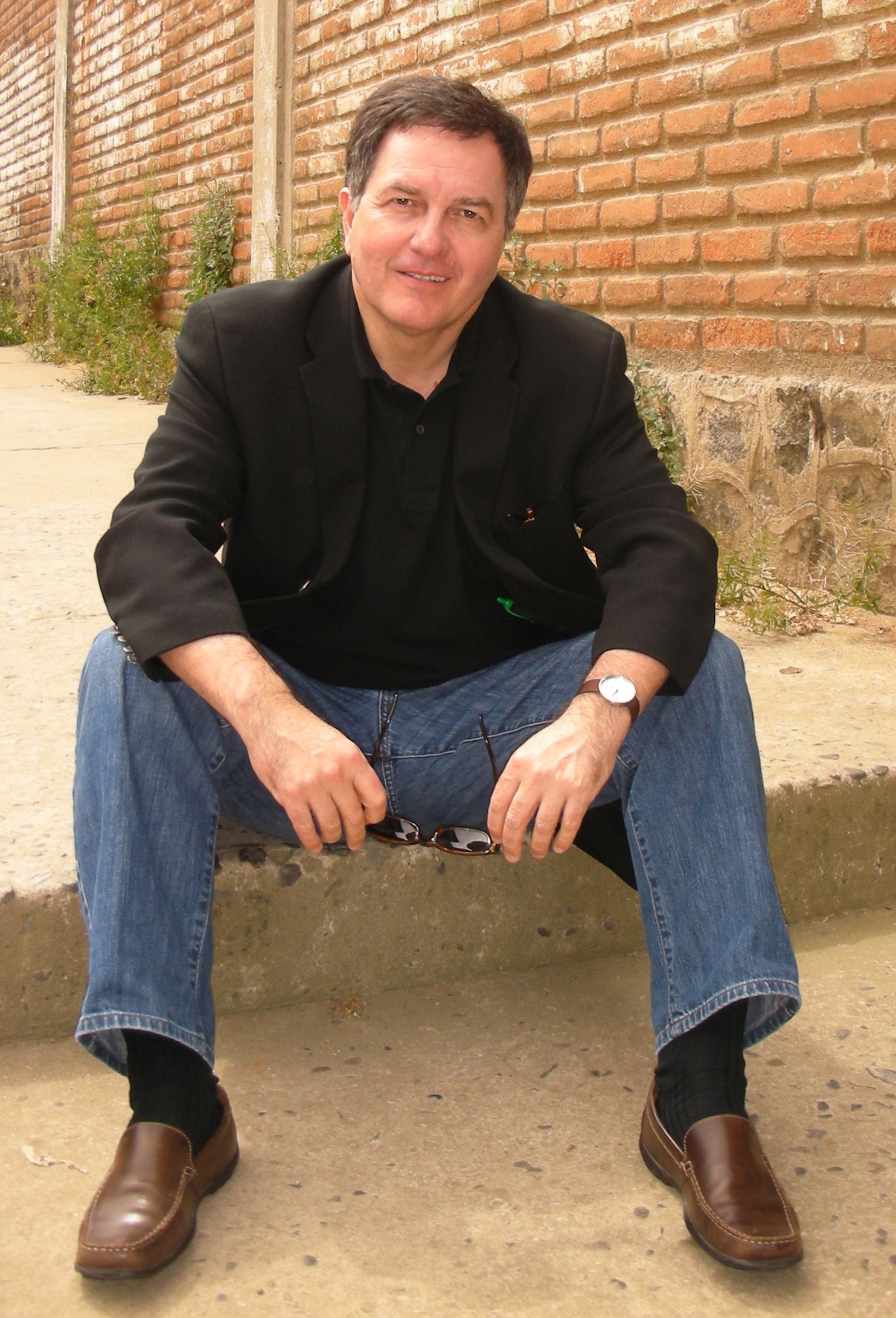 Photo taken by me after a conference in the Catholic University of Valparaíso.